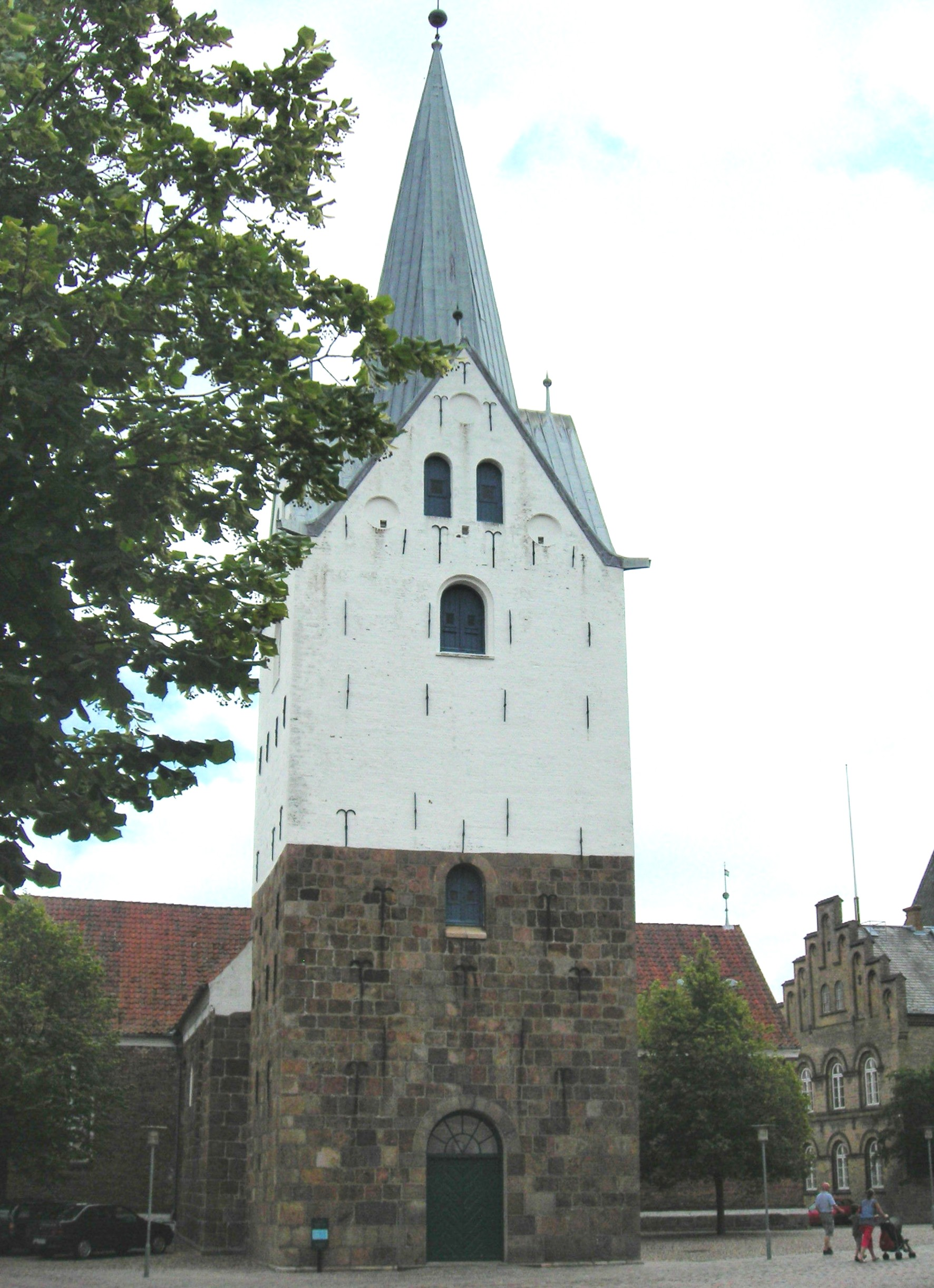 Sct Jacobi Church in Varde Danmark. The Raadhus on the right.